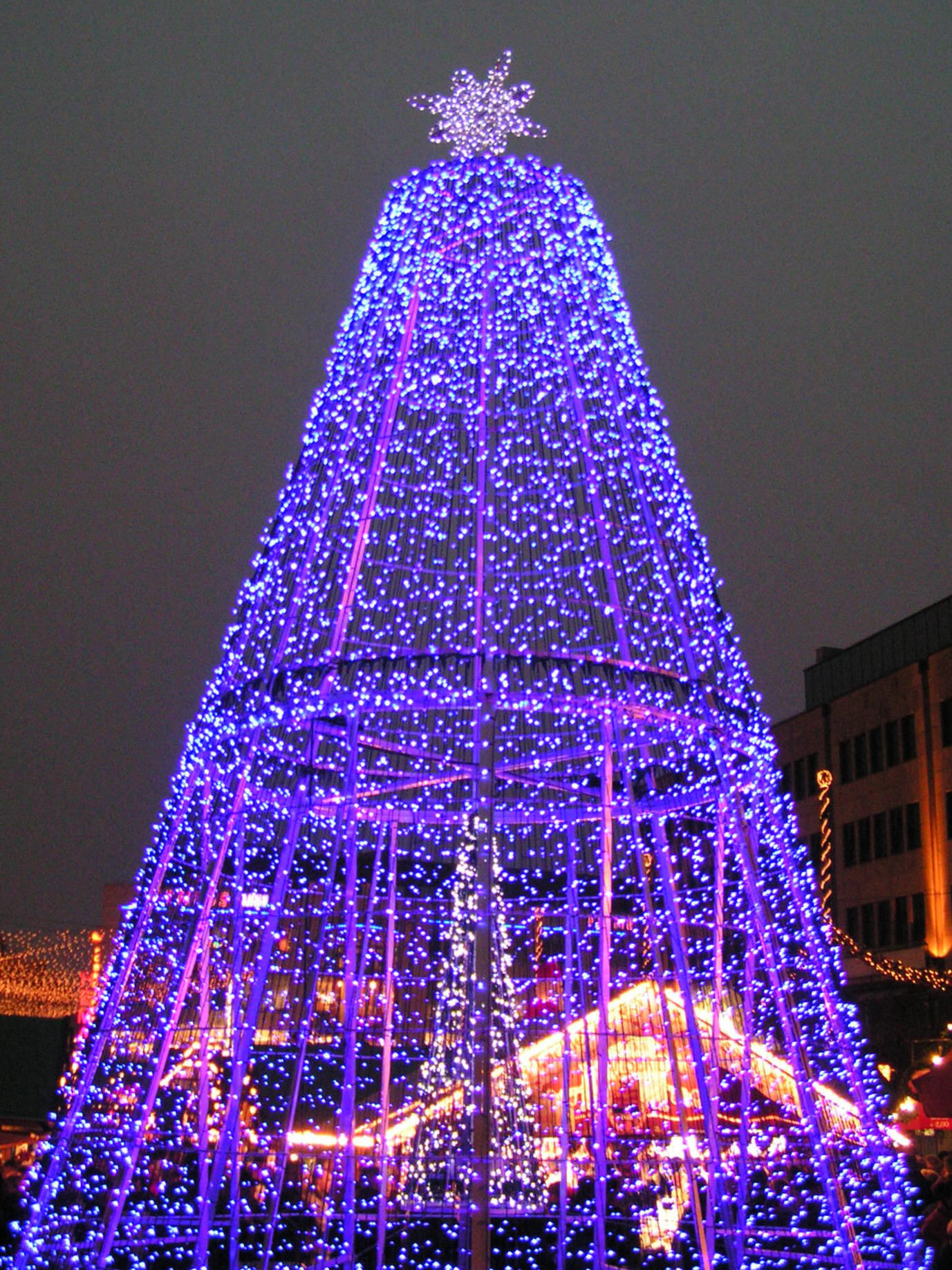 "Blauer Baum" auf dem Weihnachtsmarkt Essen (Ruhr)